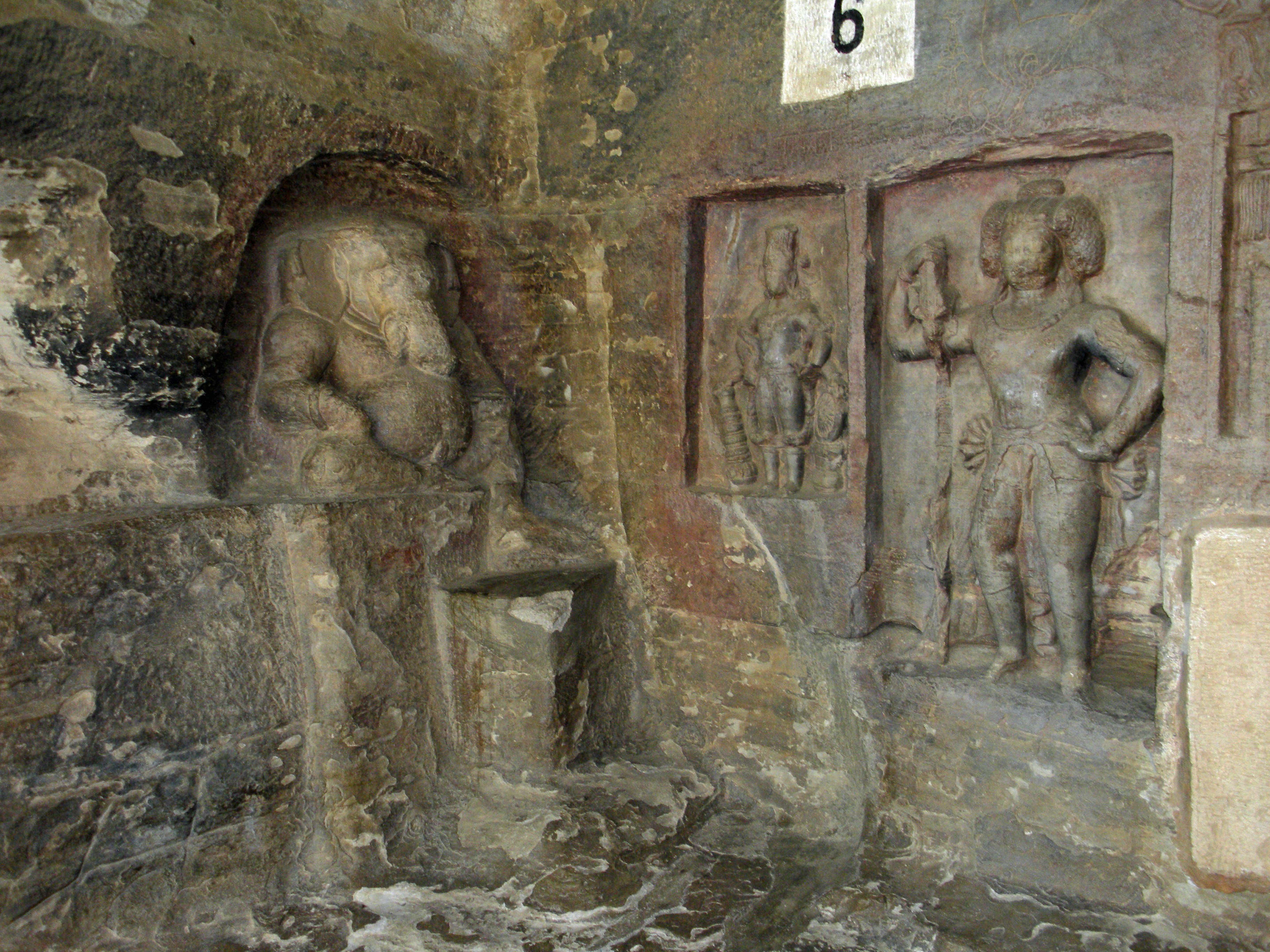 Udayagiri, Cave 6 Dvārapāla, Viṣṇu and Gaṇeśa